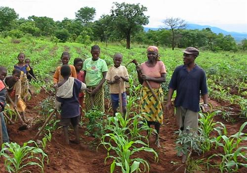 African family poses for a picture in the farm This is an image of "African people at work" from Kenya